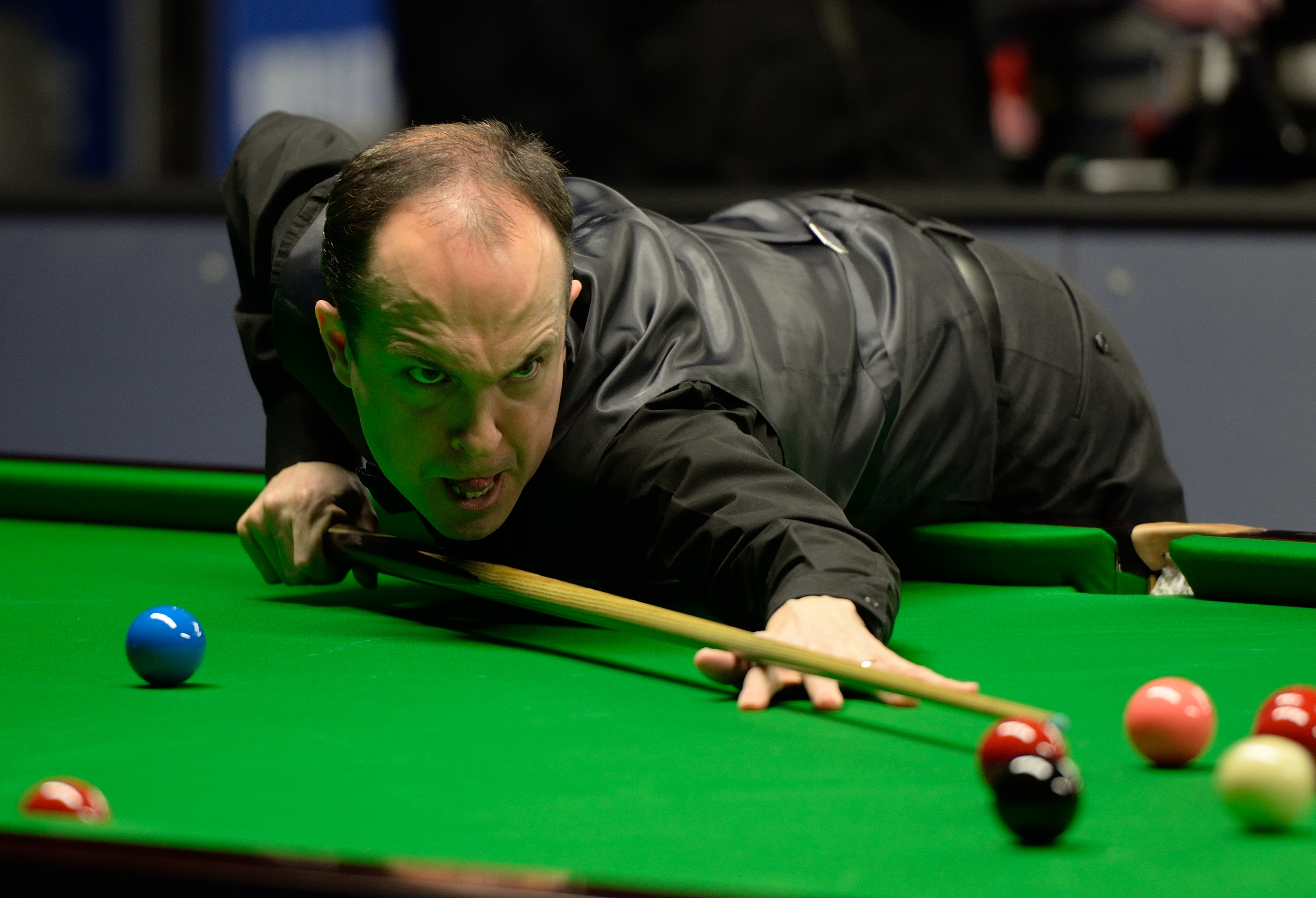 Picture taken in Berlin during the Snooker German Masters in 2015. Fergal O’Brien.